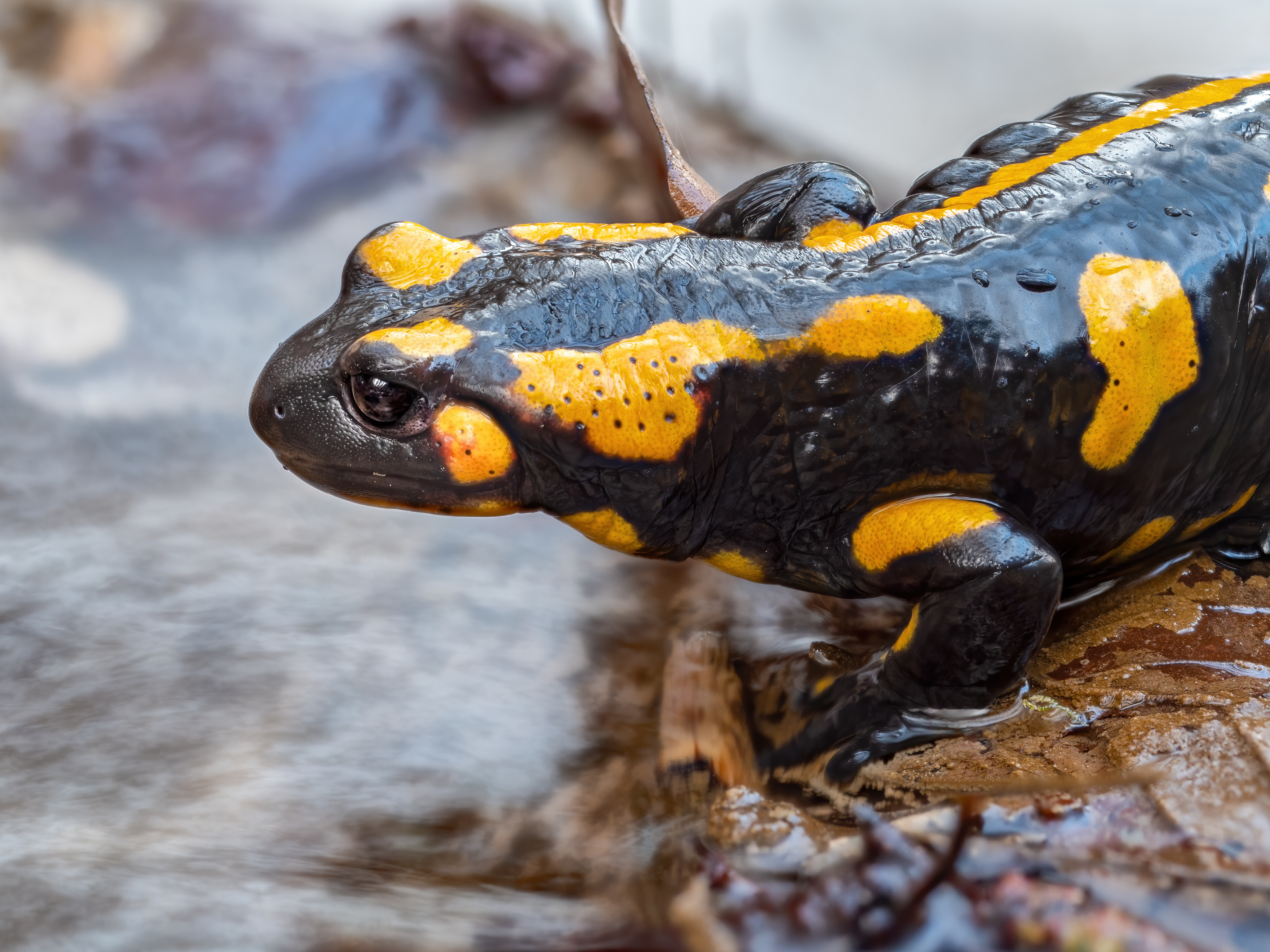 Fire salamander in a stream above Tiefenstürmig in the district of Bamberg. Focus stack from 12 frames.